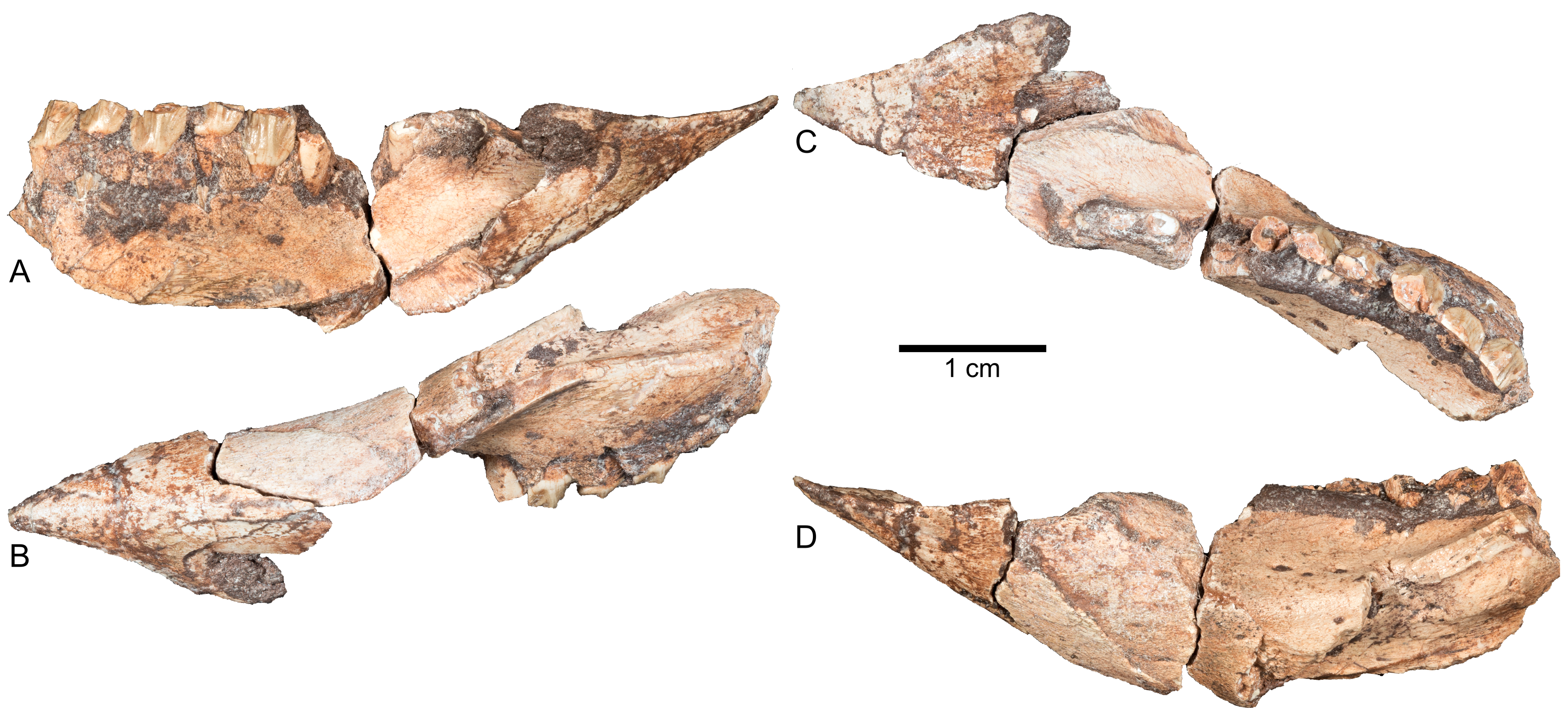 Lower jaw of Aquilops americanus, OMNH 34557 (holotype). Predentary and left dentary in A) medial; B) ventral; C) dorsal; and D) lateral views. The three fragments, although unattached, were placed into articulation for these photos. The rostral direction is to the right in A and to the left in B–D.